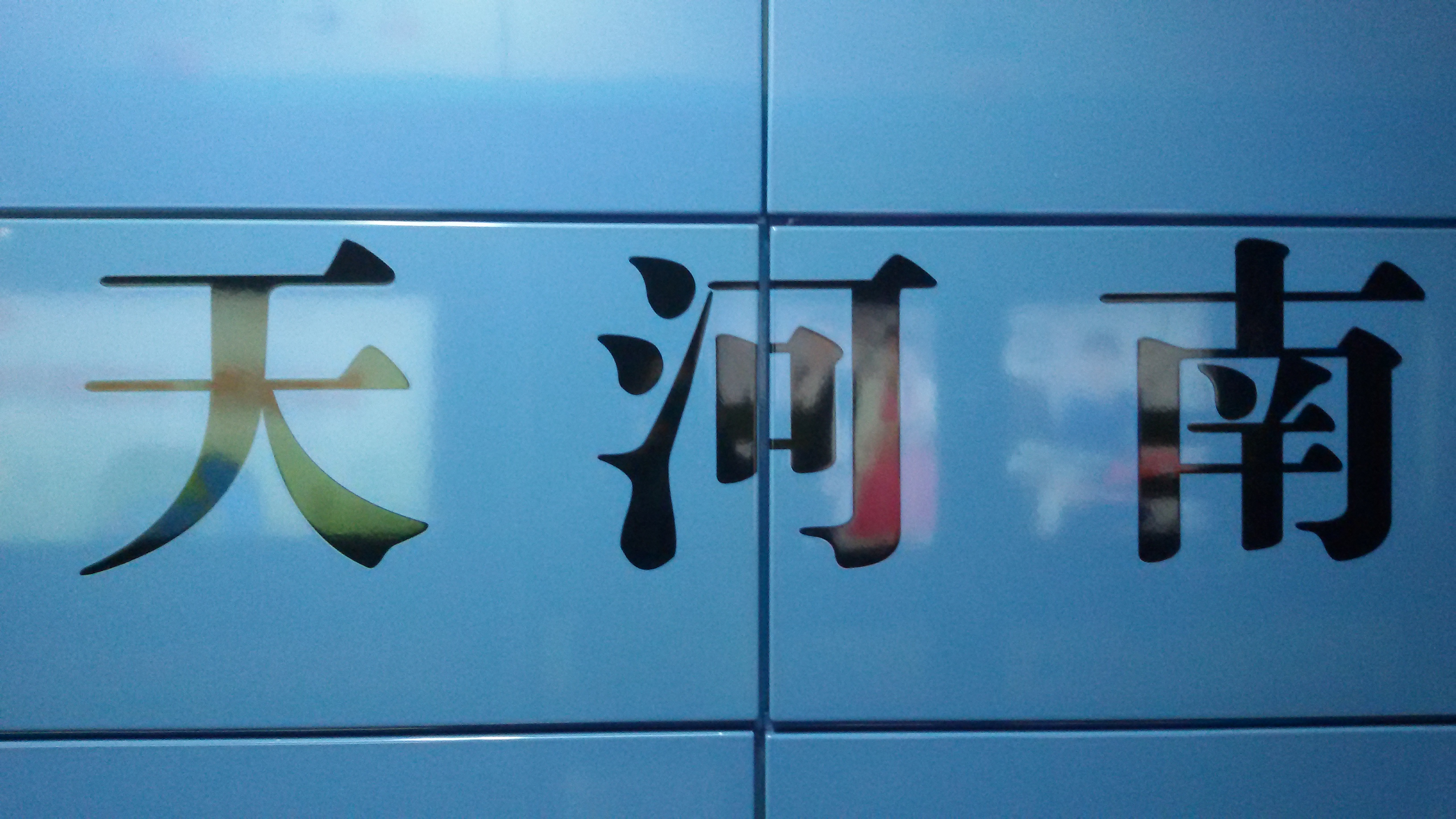 BIG TEXT for Tianhe South Station in Guangzhou Metro. 粵語: 廣州地鐵，天河南站入面嘅大字。